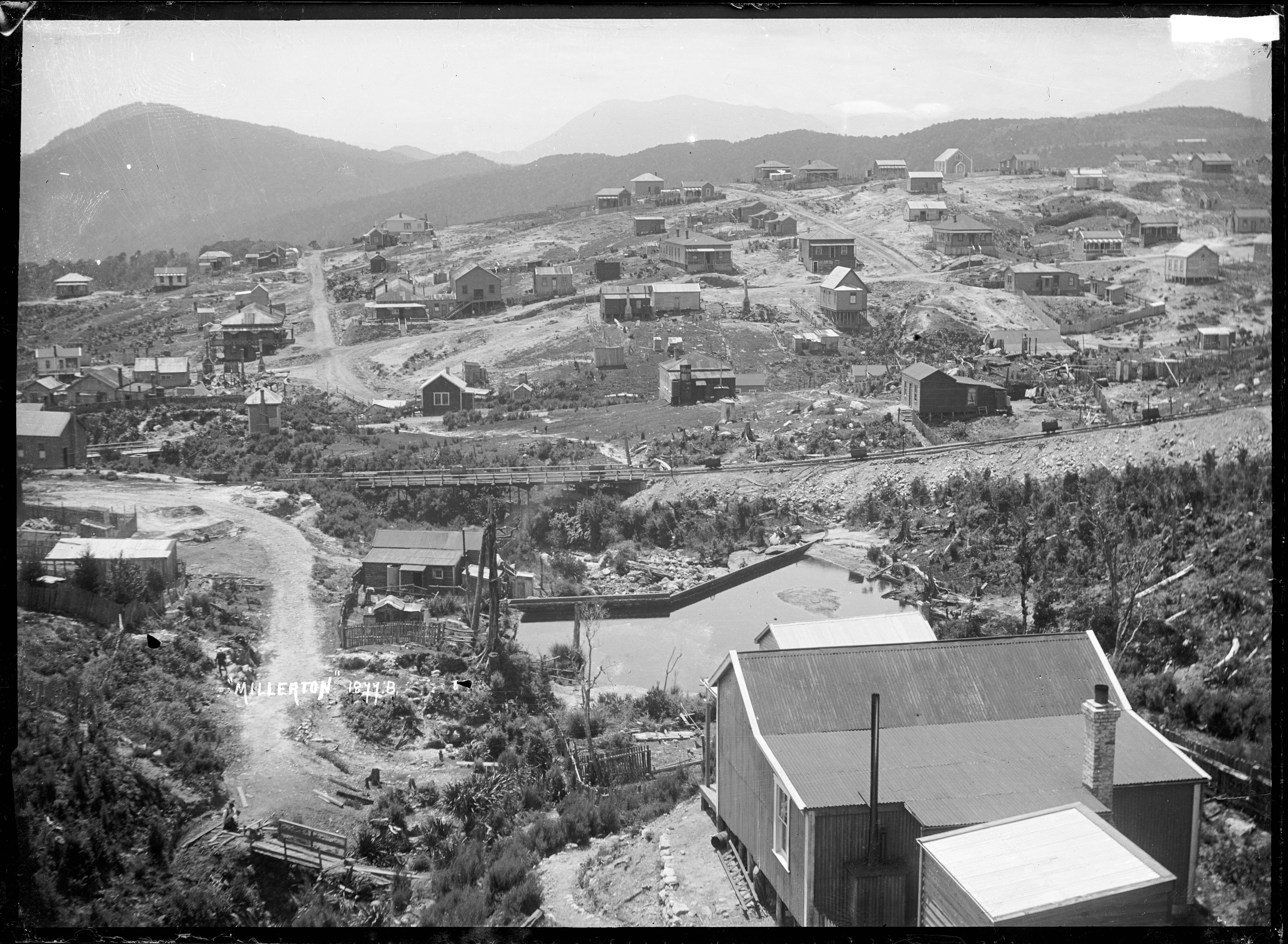 Millerton township. Photograph taken by William A Price. Inscriptions: Inscribed - Photographer's title on negative -Millerton. No 1877B. Quantity: 1 b&w original negative(s). Physical Description: Dry plate glass negative Millerton settlement. Price, William Archer, 1866-1948 :Collection of post card negatives. Ref: 1/2-000702-F. Alexander Turnbull Library, Wellington, New Zealand.